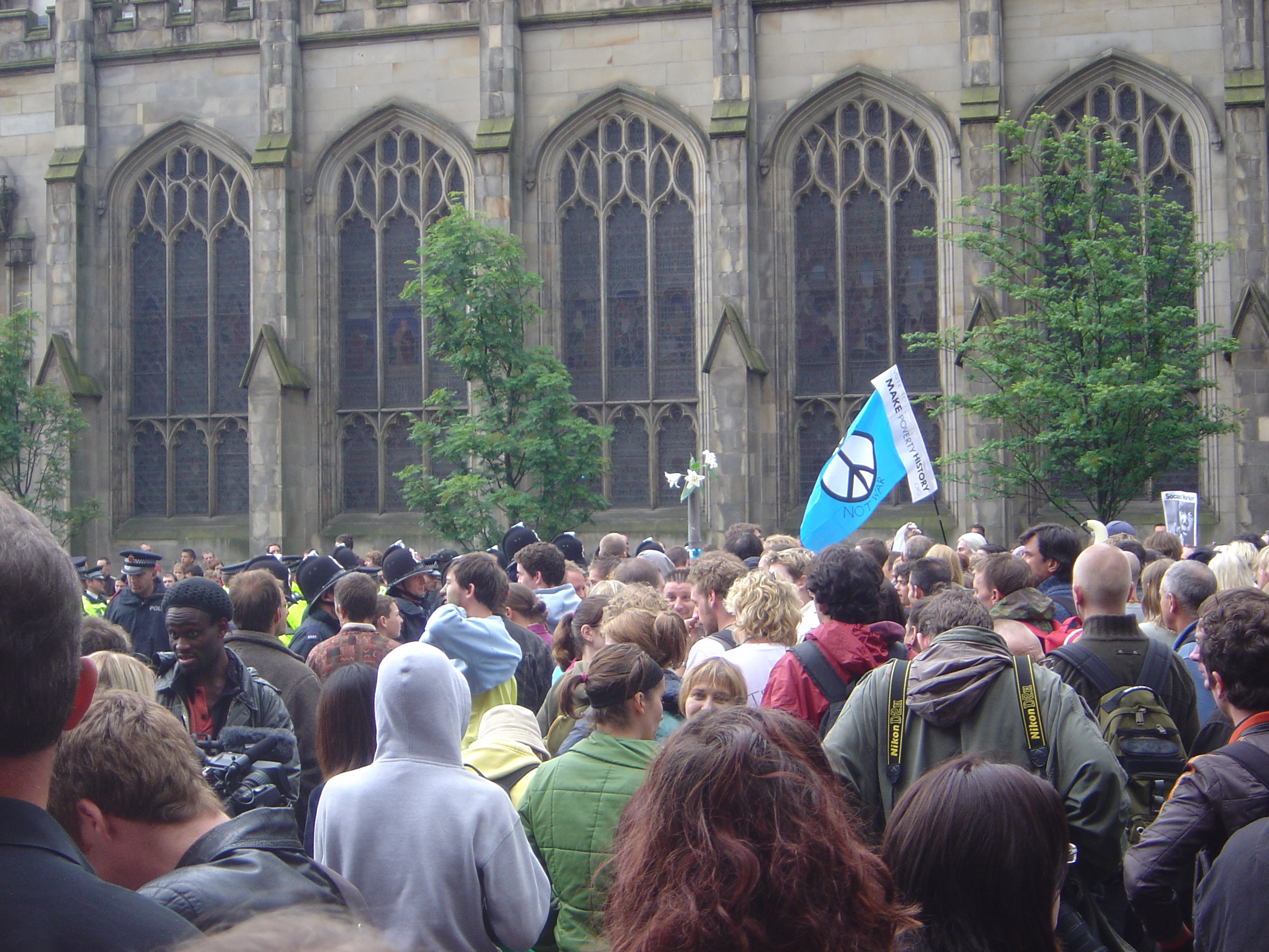 Street protests in Edinburgh during G8 2005/07/06